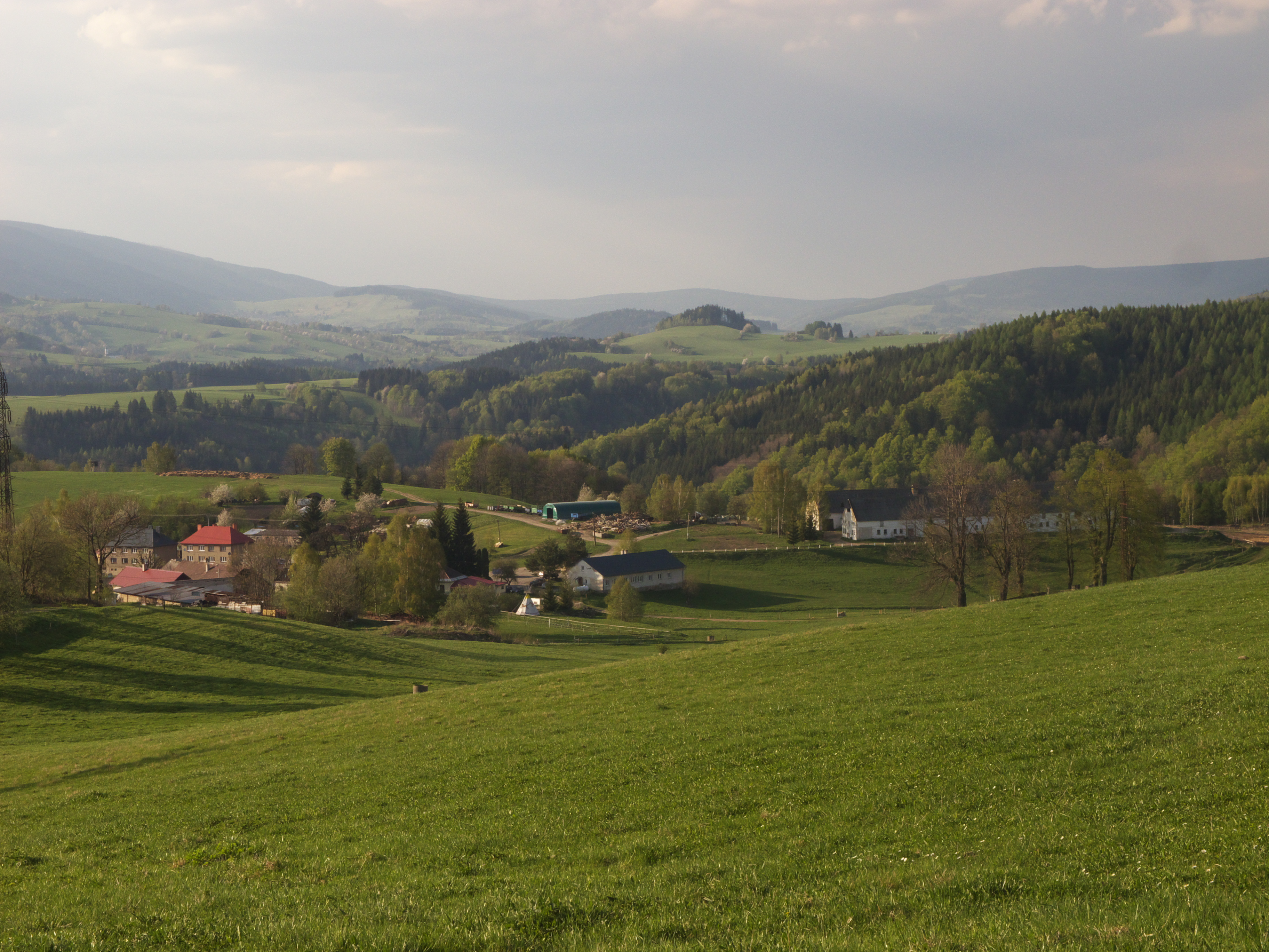 The village of Hynčice nad Moravou (Heizendorf an der March)